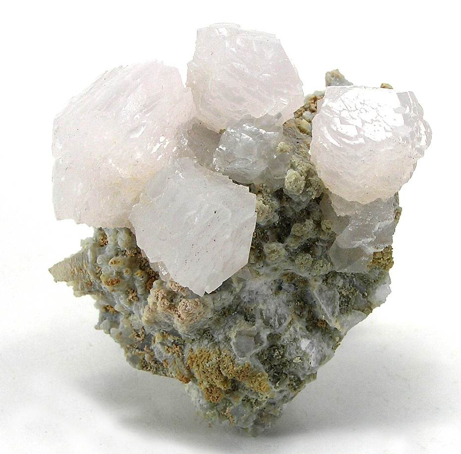 Calcite (Var.: Manganoan Calcite) Locality: Nikolaevskiy Mine, Dal'negorsk (Dalnegorsk; Tetyukhe; Tjetjuche; Tetjuche), Primorskiy Kray, Far-Eastern Region, Russia (Locality at ) Lustrous, stepped crystals with a light pink blush from the manganese content, in a pleasing arrangement atop the matrix. 6.4 x 6.2 x 4.4cm